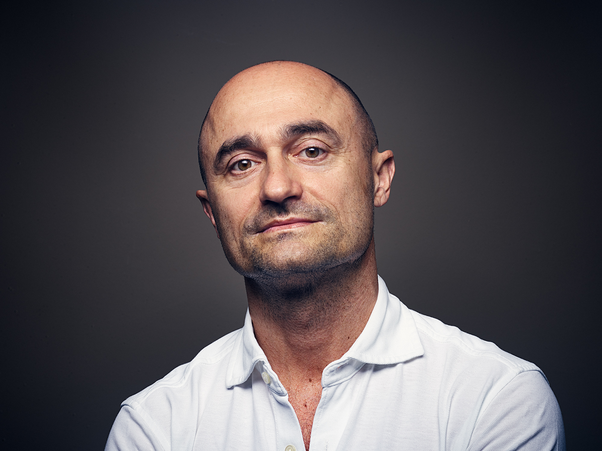 Harald Fidler Journalist Media Editor (Der Standard, and Author (